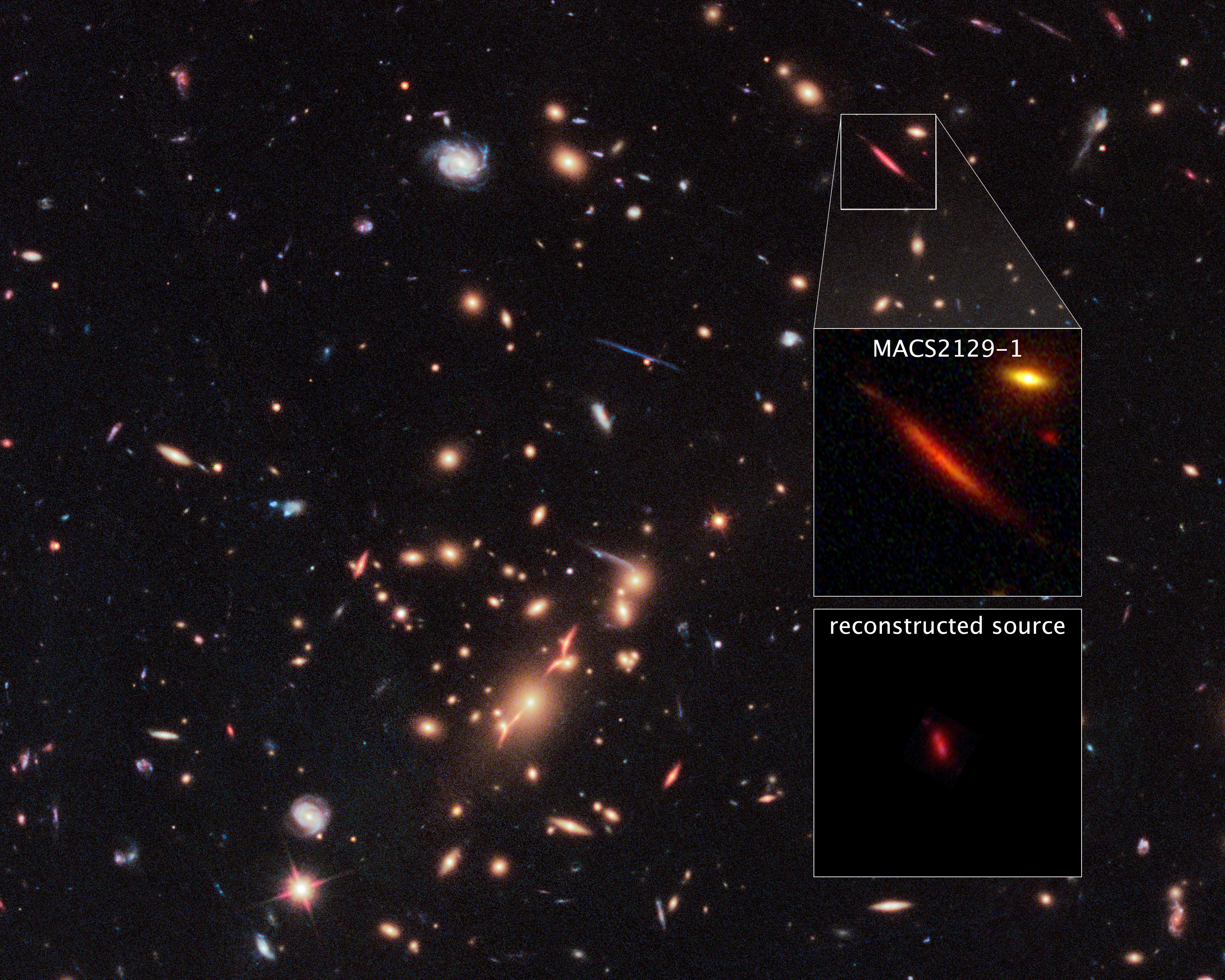 Acting as a natural telescope in space, the gravity of the extremely massive foreground galaxy cluster MACS J2129-0741 magnifies, brightens, and distorts the far-distant background galaxy MACS2129-1, shown in the top box. The middle box is a blown-up view of the gravitationally lensed galaxy. The bottom box displays a reconstructed image, based on modeling, that shows what the galaxy would look like if the galaxy cluster were not present. The galaxy appears red because it is so distant that its light is shifted into the red part of the spectrum.